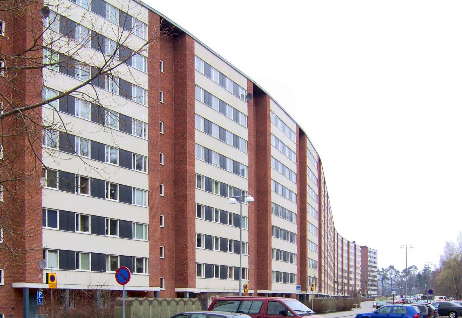 Huset Ormen långe, Masmo, sydvästra Storstockholm. The house, the long worm, Masmo, southwest part of Greater Stockholm, Sweden.